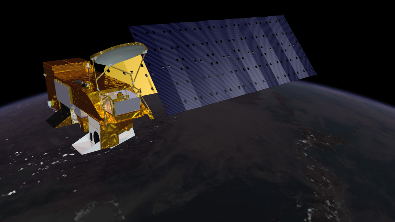 The Aqua satellite carries a suite of sensors specially designed for observing all parts of Earth’s water cycle, including water on land, in the oceans, and in the atmosphere. Aqua follows a kind of polar orbit known as a Sun-synchronous orbit, which means it crosses the equator at the same local time during each pass. Aqua’s orbit ascends from south to north during the daylight hours, crosses near the North Pole, circles around Earth’s night-time side, and crosses near the South Pole to return to the daytime side.